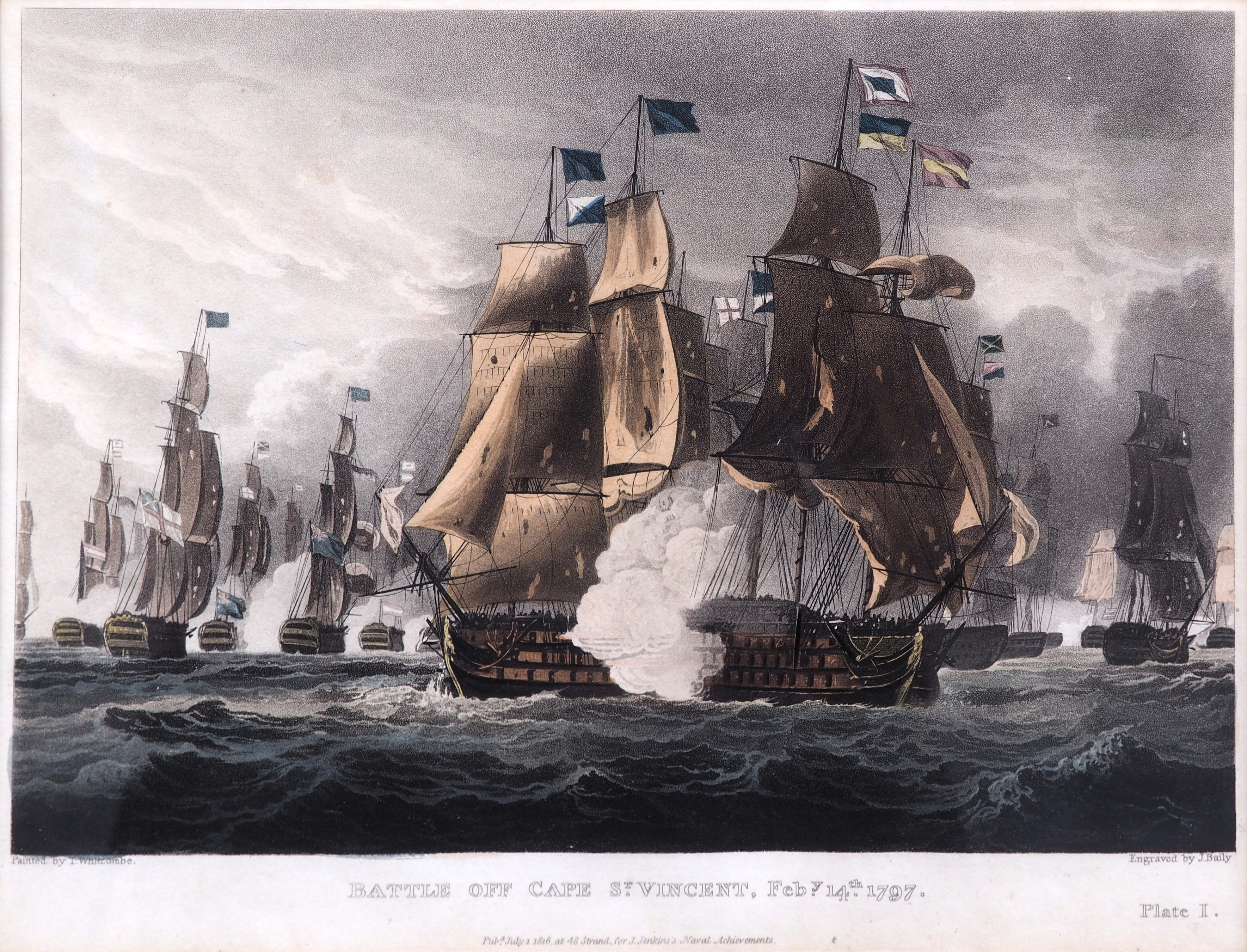 Engraving depicting the Battle of Saint Vincent in 1797, engraved by J. Baily after an oil painting by Robert Clevely (The Victory Raking the Spanish Salvador del Mundo at the Battle of Cape St Vincent, 14 February 1797)